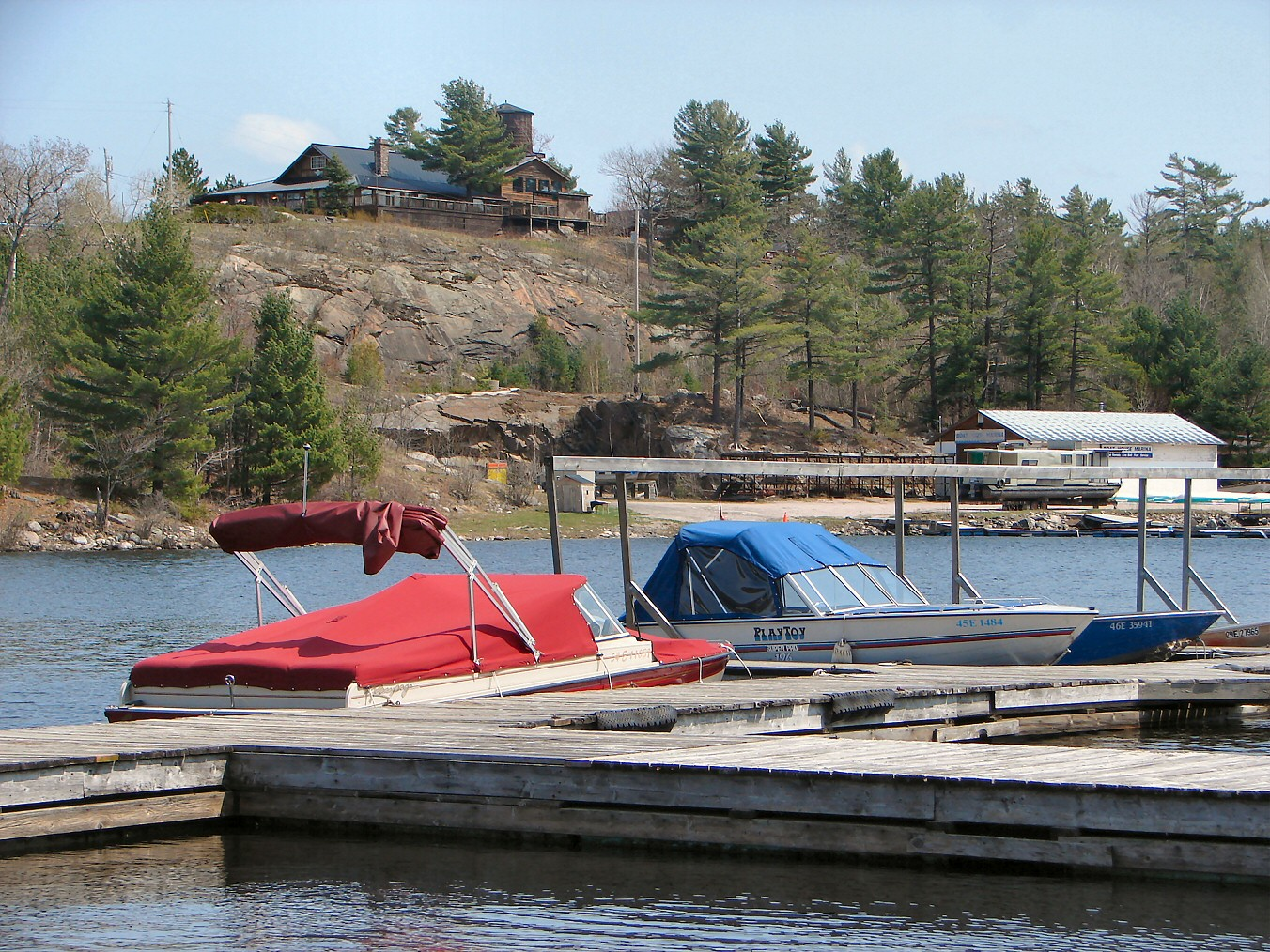 French River at French River Station, Ontario, Canada